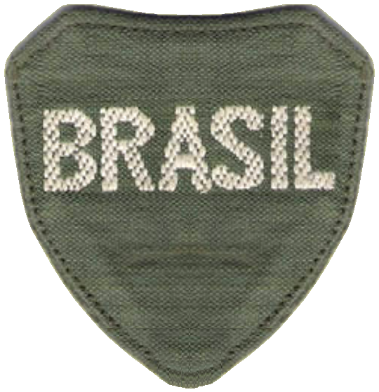 First badge of Brazilian Expeditionary Force.